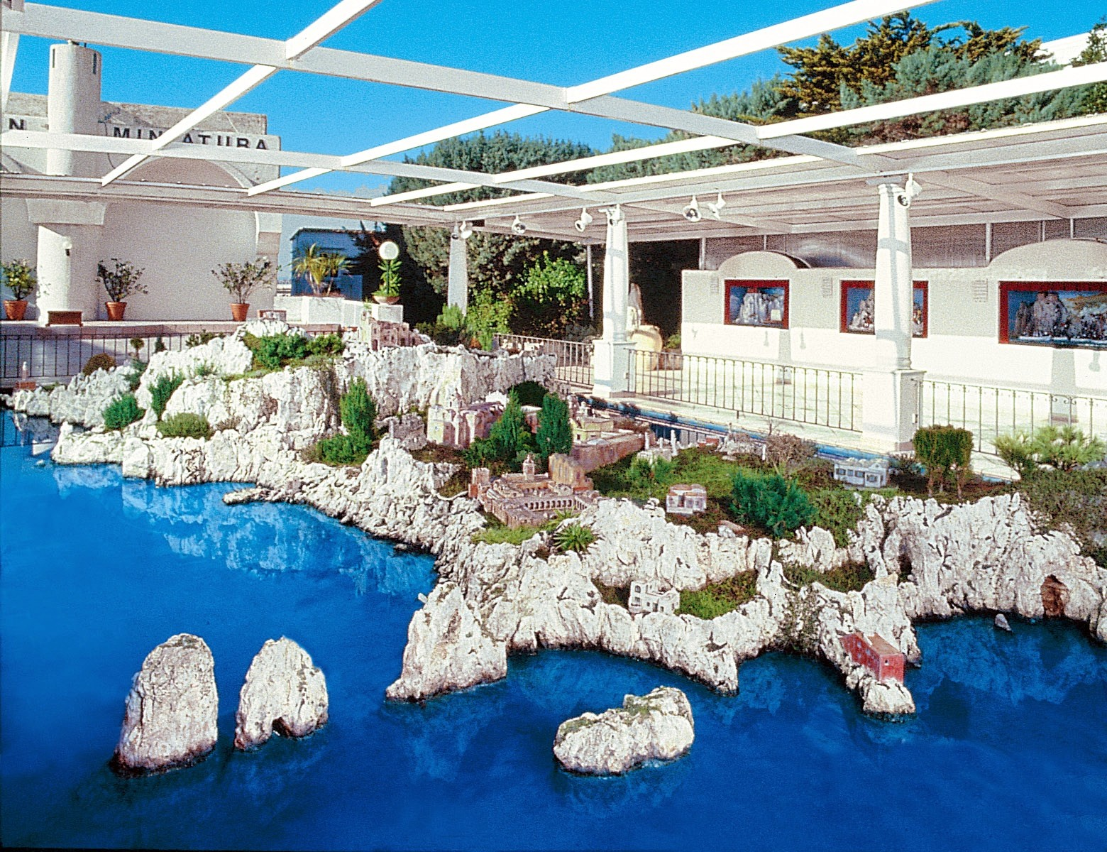 CAPRI IN MINIATURE: The little Capri which is artistically represented by Sergio Rubino reveals the salient moments of its history and its greatest natural beauties, taking us on a fascinating journey through the past. The large size of the work, 18 x 9 m (46 x 23 ft), which is made of pottery and limestone entirely sculpted and worked by hand and finished off with dwarf vegetation, provides a unique opportunity to admire the island in all of its enchanting beauty.